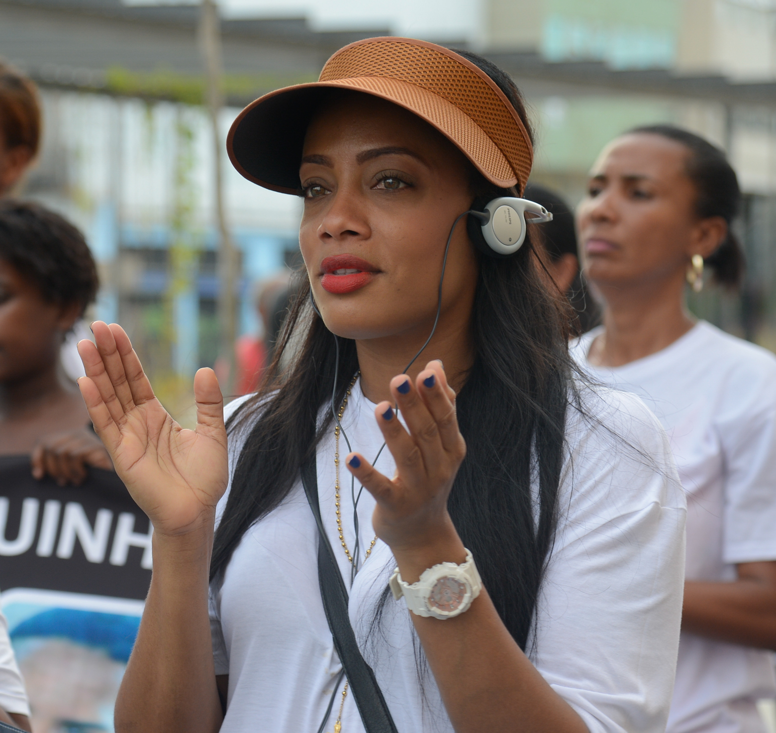 US-born Marion Gray-Hopkins and Jamaican Shackelia Jackson, mother and sister of black youths killed by police, protest with Brazilians in Rio de Janeiro.